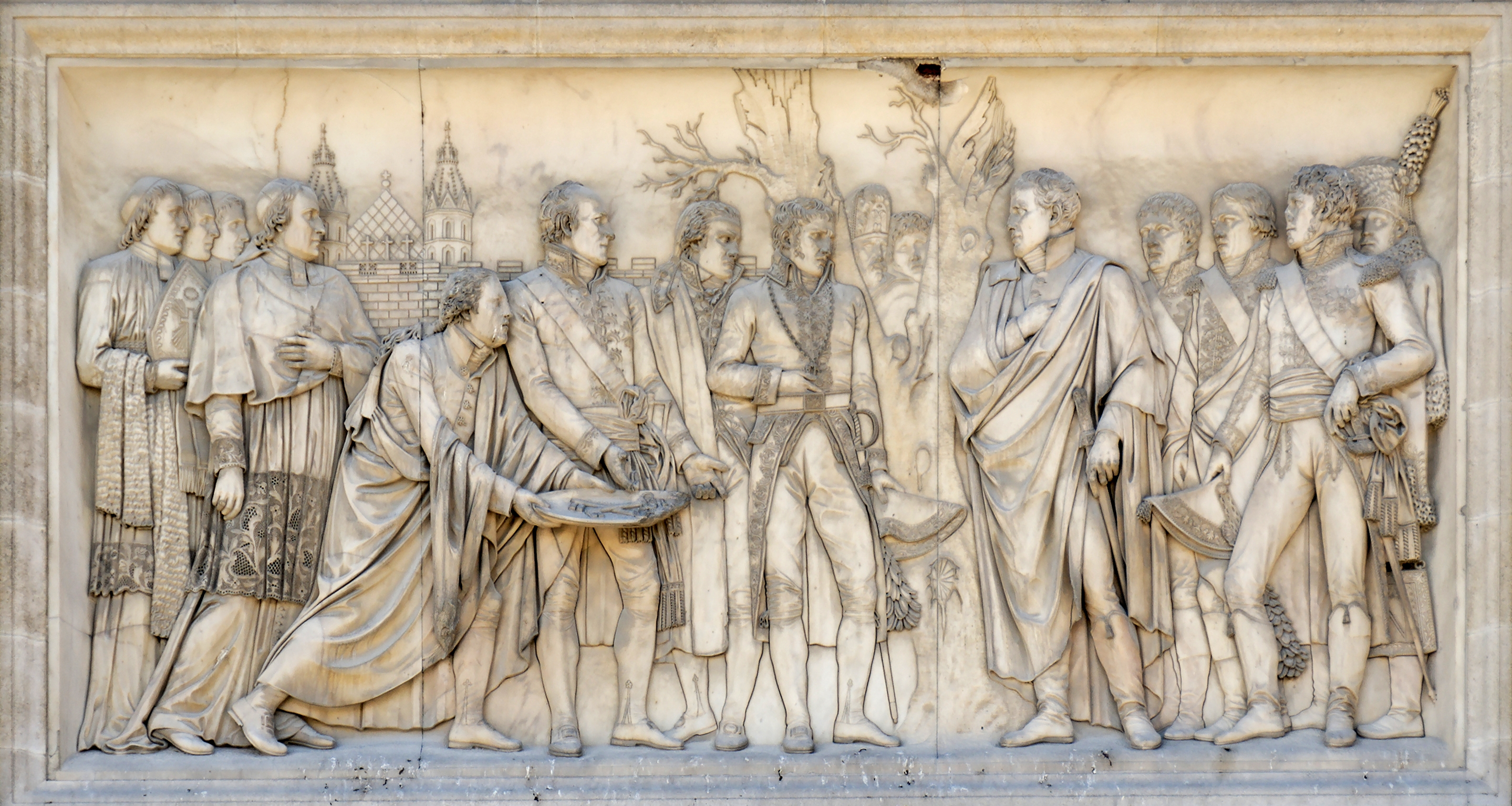 Entry to Vienna by Louis Pierre Deseine (1749–1822). Marble relief, south side of the Arc de Triomphe du Carrousel, Paris. H. 2 m (78 ½ in.), W. 3.75 m (147 ½ in.).